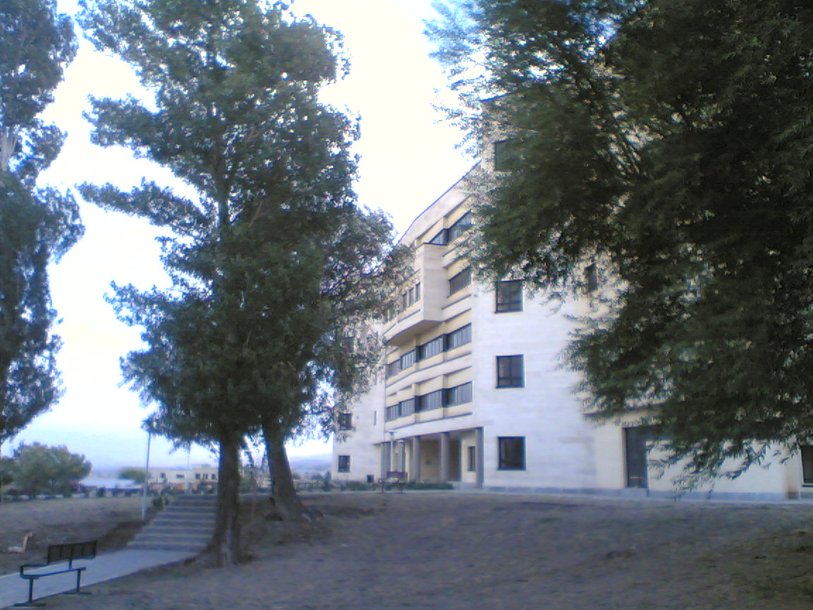 BuAli Sina University